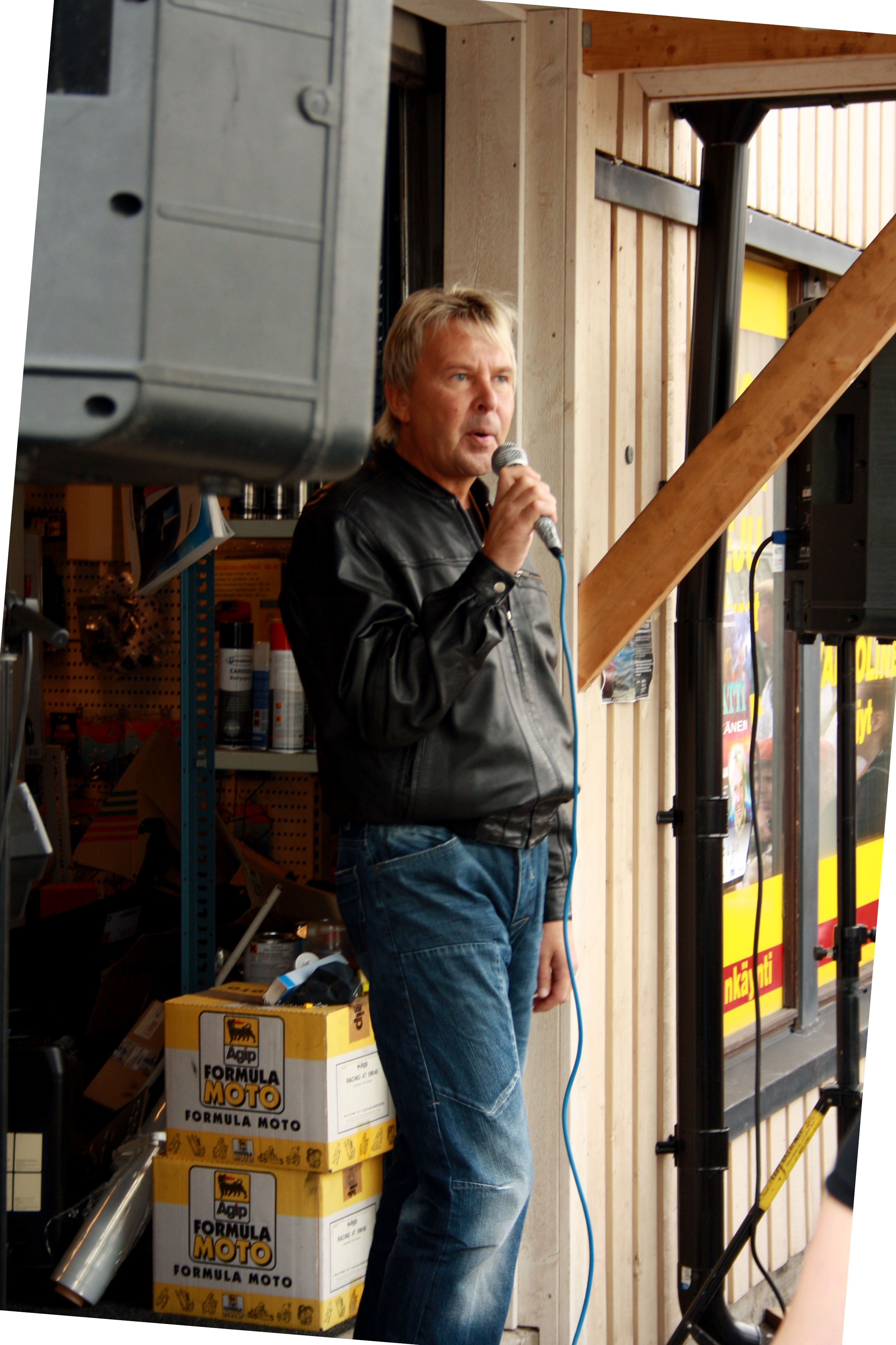 Matti Nykänen singing and joking with his guitarist during a performance held at a car repair parts shop in Kirkkonummi, on the 19th of June 2010.